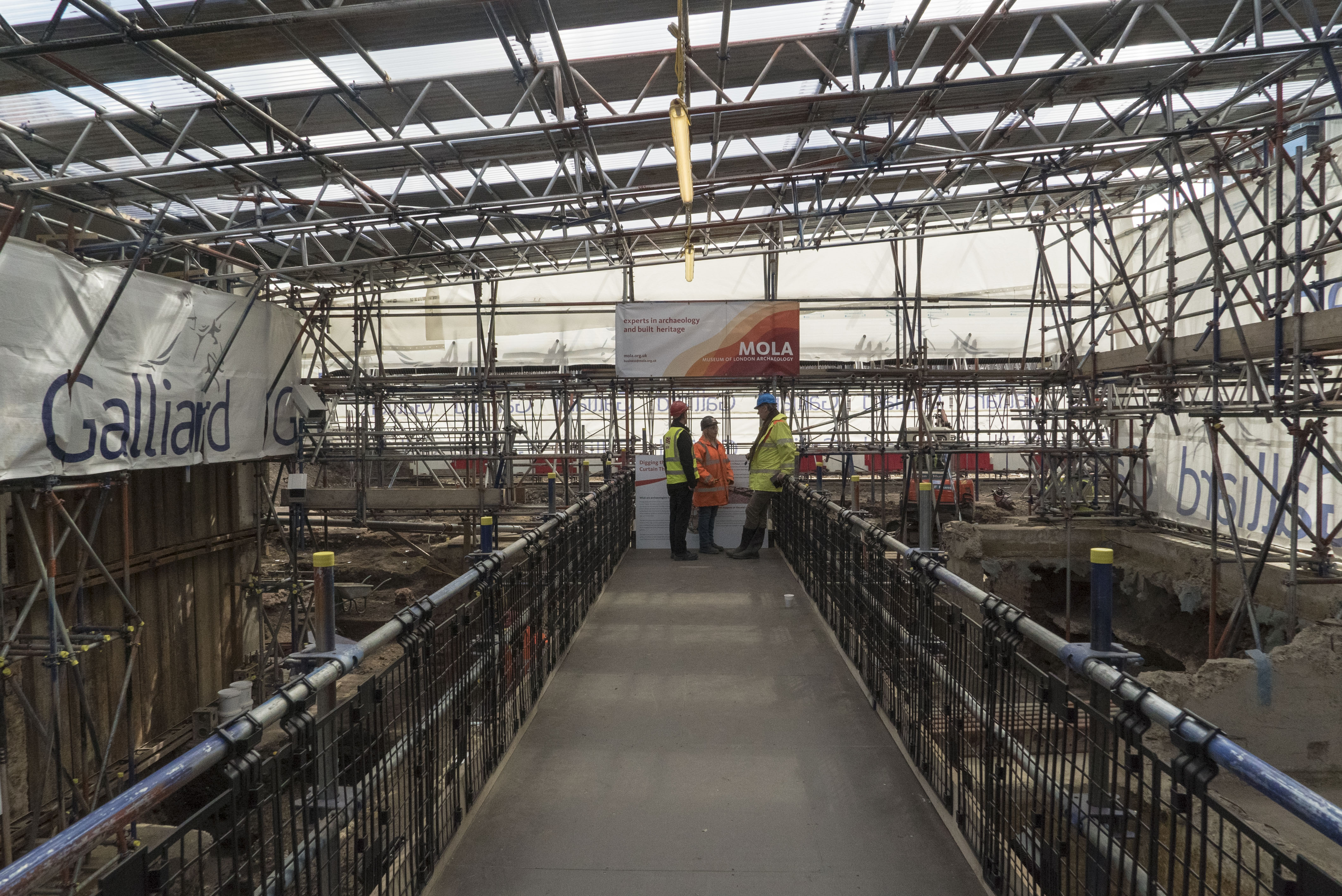 Archaeological dig at the site of The Curtain Elizabethan playhouse where Shakespeare performed